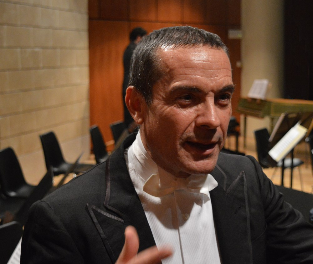 Paolo Olmi director Young musicians european orchestra